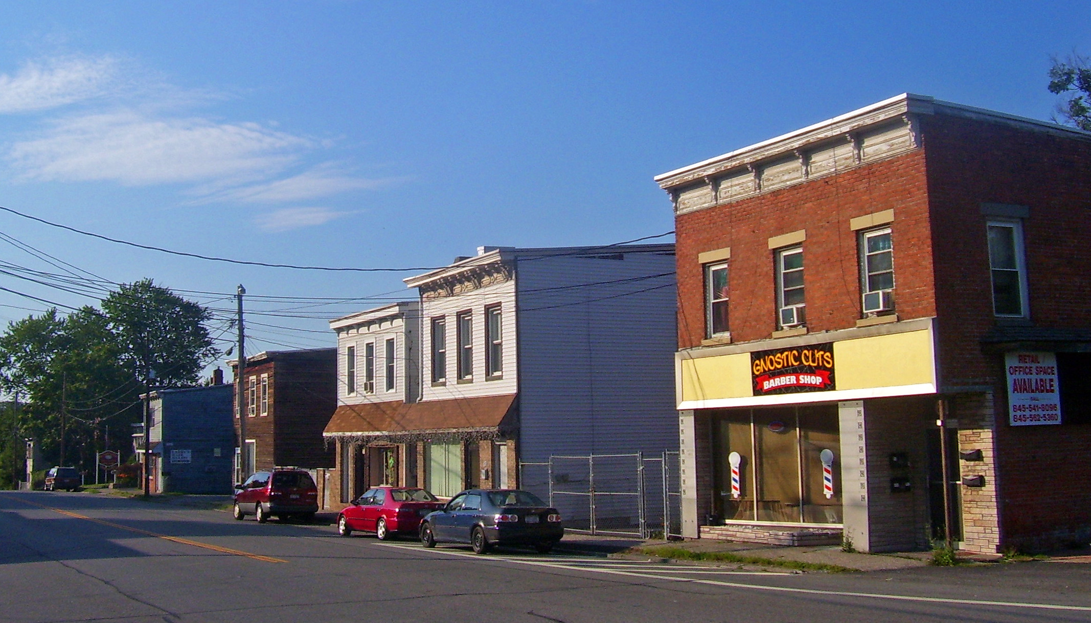 Downtown New Windsor, NY, USA, looking north along US 9W